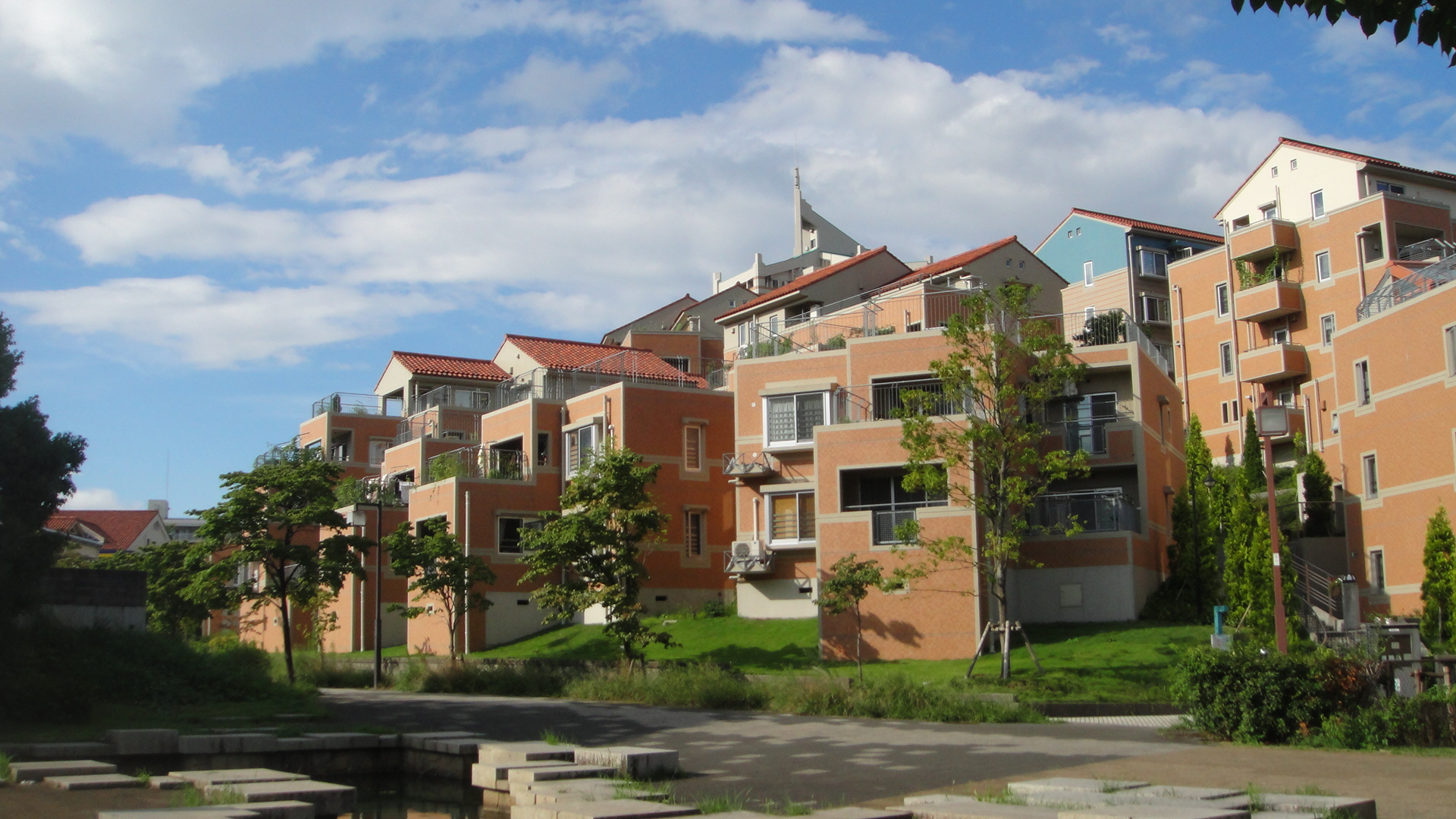 Tama Newtown, Berukorinu Minamiosawa, Hachioji, Tokyo